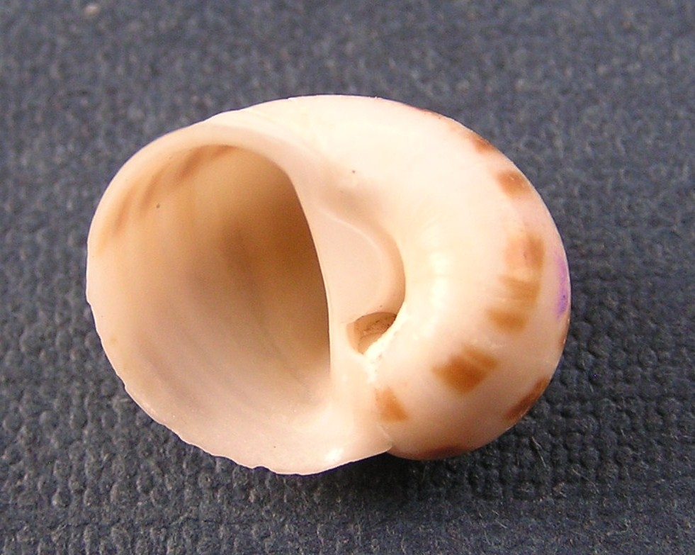 Natica seychellium Watson , 1886, a moon snail from the family Naticidae; Philippines